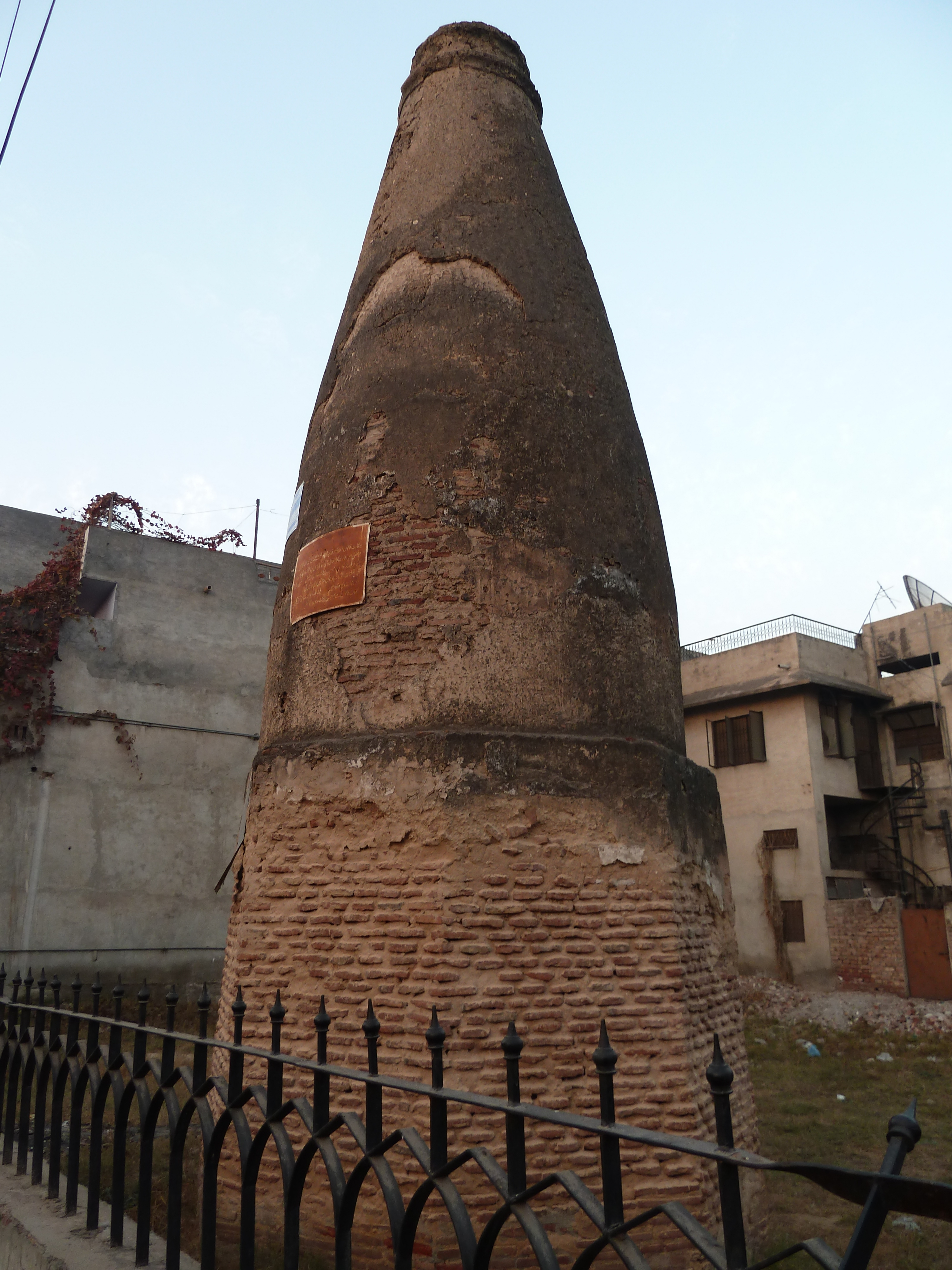 One Kos Minar, Garhi Shahu, Lahore This is a photo of a monument in Pakistan identified as the PB-75